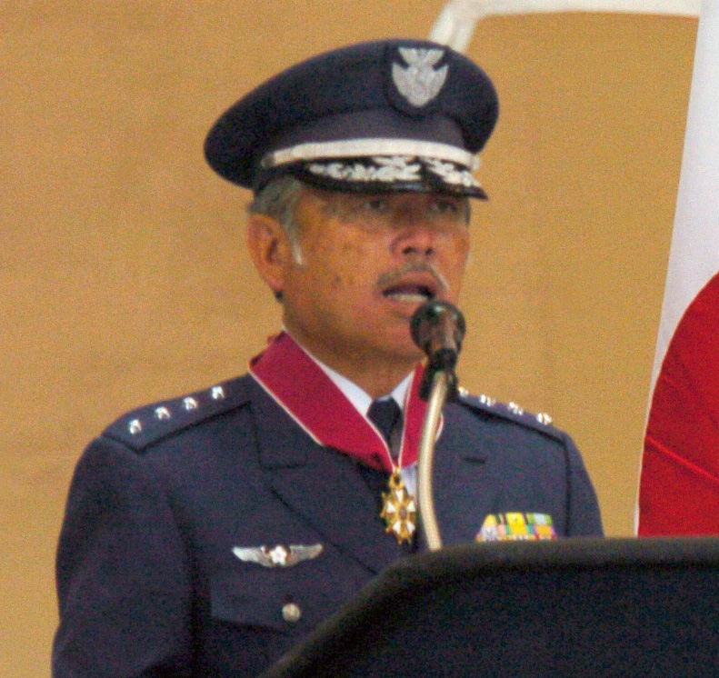 GEN. Yoshimitsu Tsumagari, CHIEF, Japan Air Self-Defense Force.